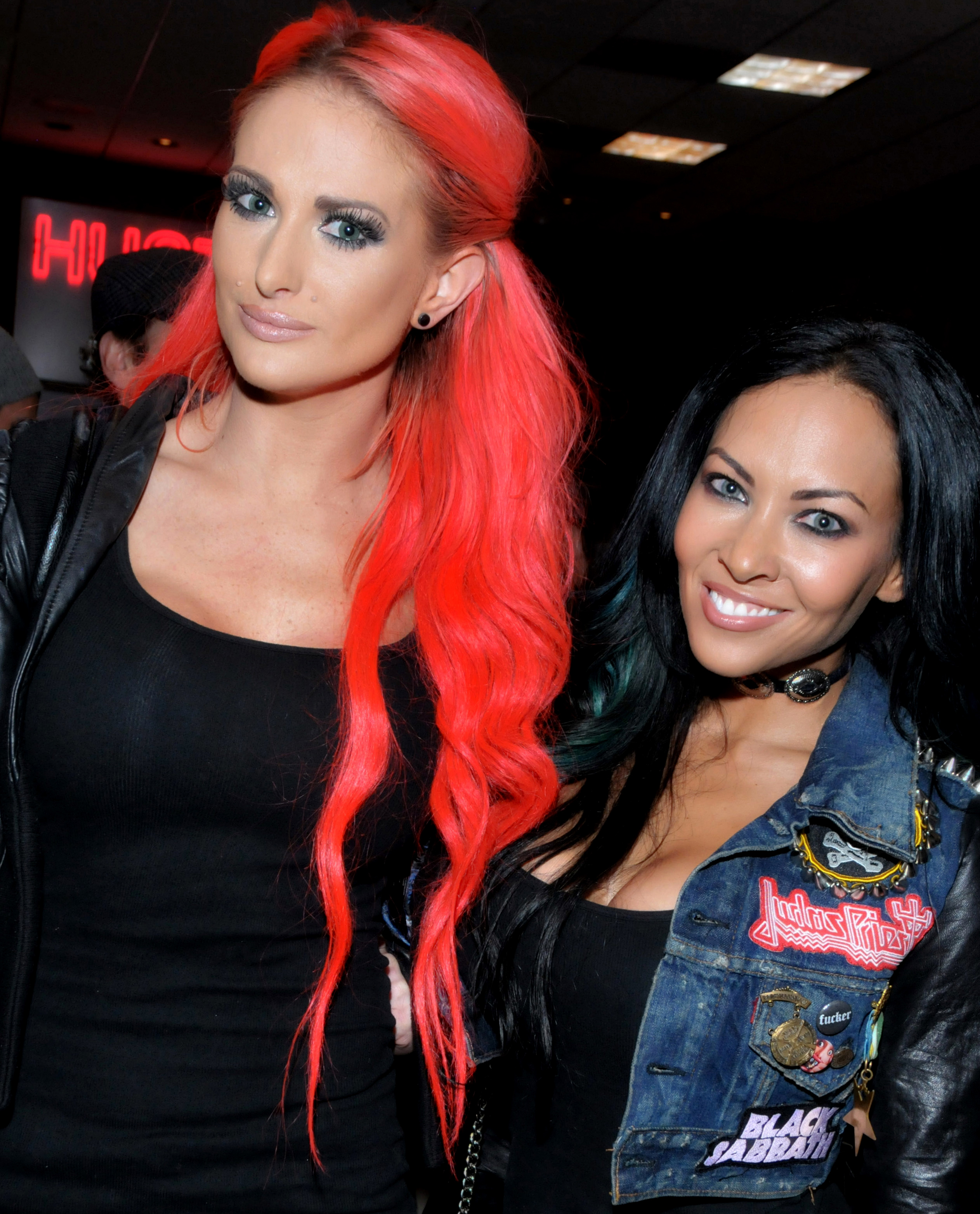 Heidi Shepherd and Carla Harvey of the 'Butcher Babies' band attend Amie Harwick’s Book Signing of her first book: "The New Sex Bible for Women" at the Hustler Hollywood store on November 11, 2014 in West Hollywood California. (Photo by Glenn Francis/PacificProDigital.com)